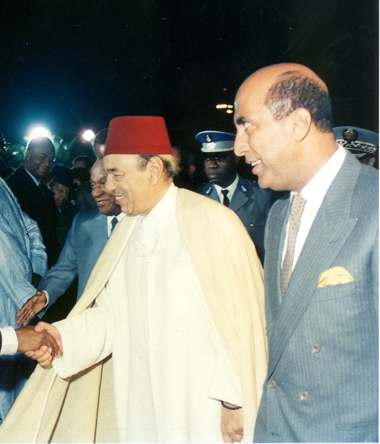 L'Ambassadeur avec le roi du Maroc